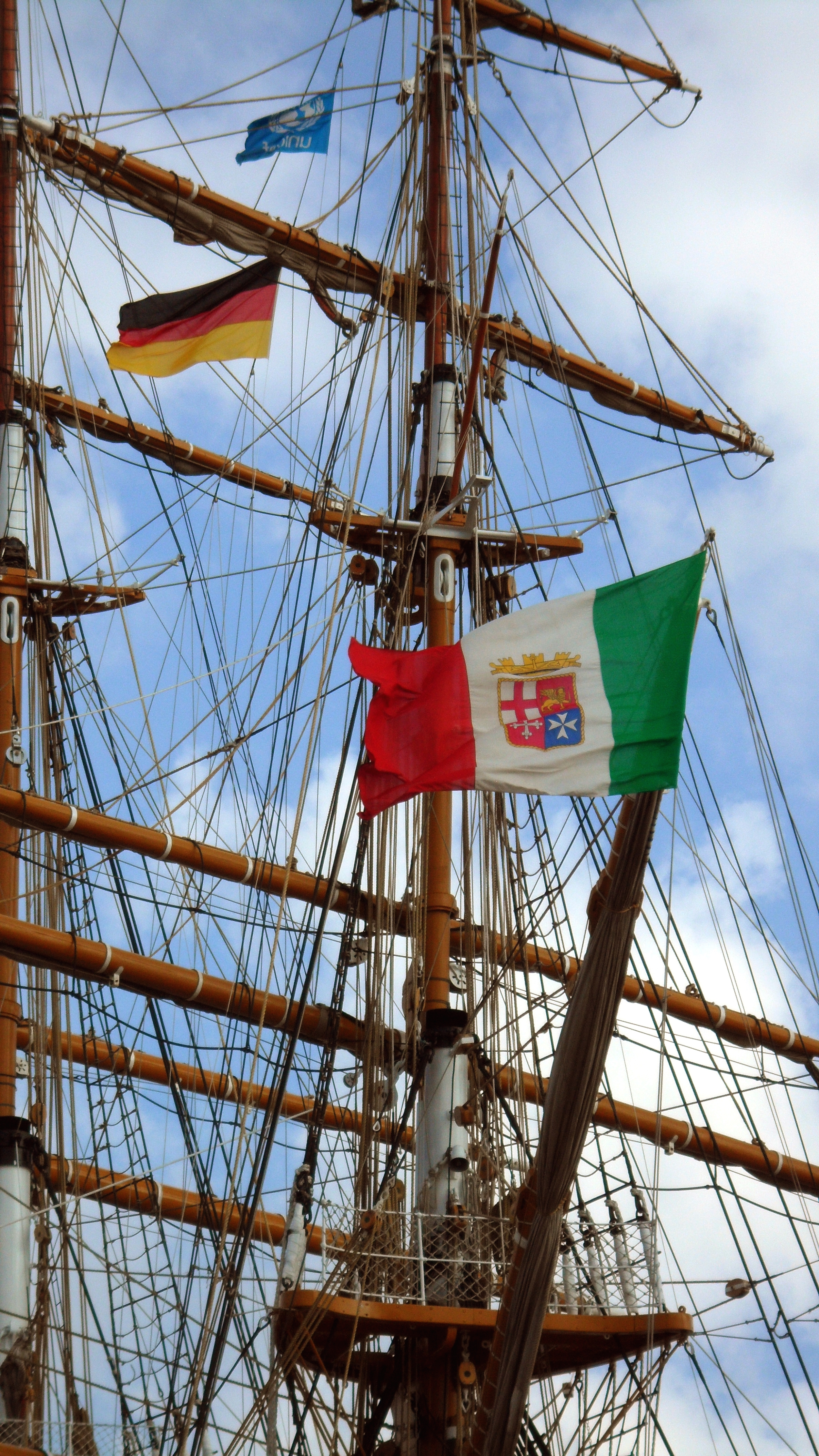 Home and host country flags of the Italian sail training ship Amerigo Vespucci in the harbor of Hamburg in August 2013.